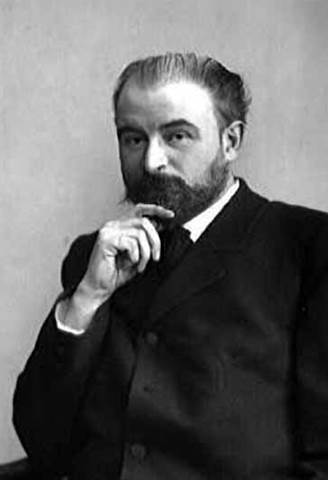 Russian artist Vasiliy Pereplyotchikov (1863-1918)